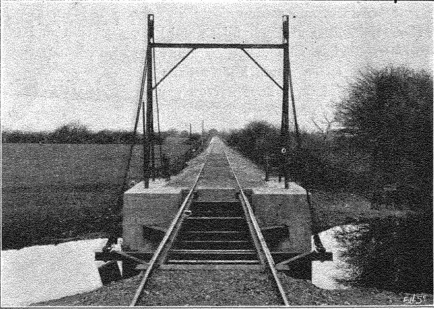 Lift bridge on West Sussex Railway crossing the Chichester Canal